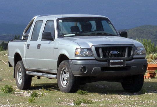 South American 2004–2009 Ford Ranger Double Cab in the Pampa de Achala, Sierras de Córdoba, Argentina